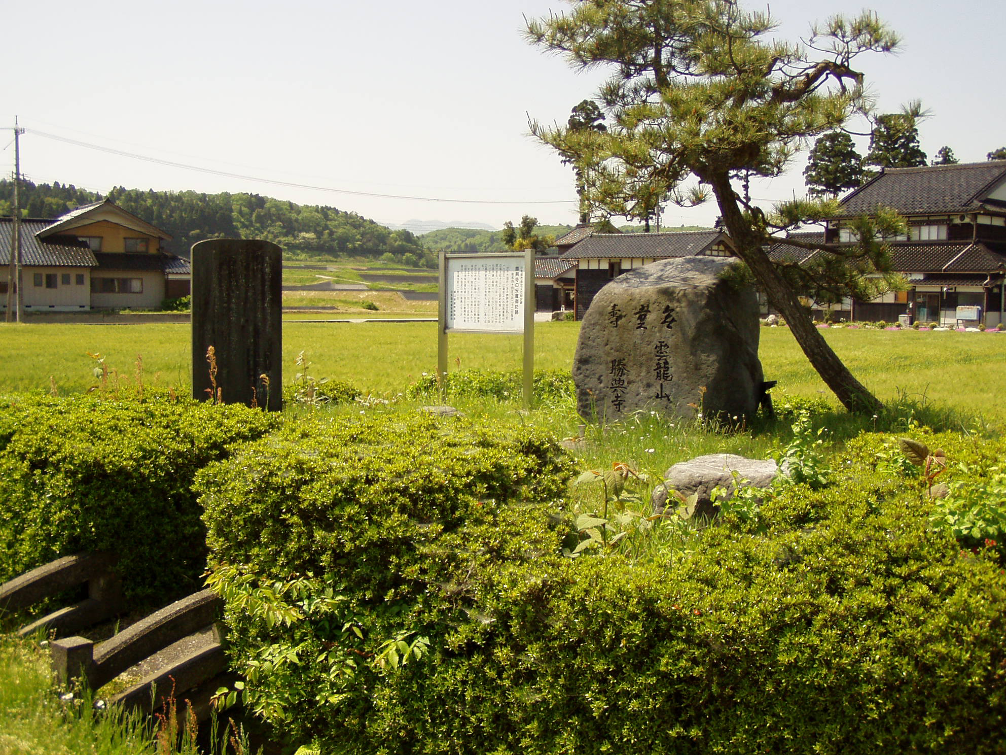 Anyouji-castle(Toyama-Japan)